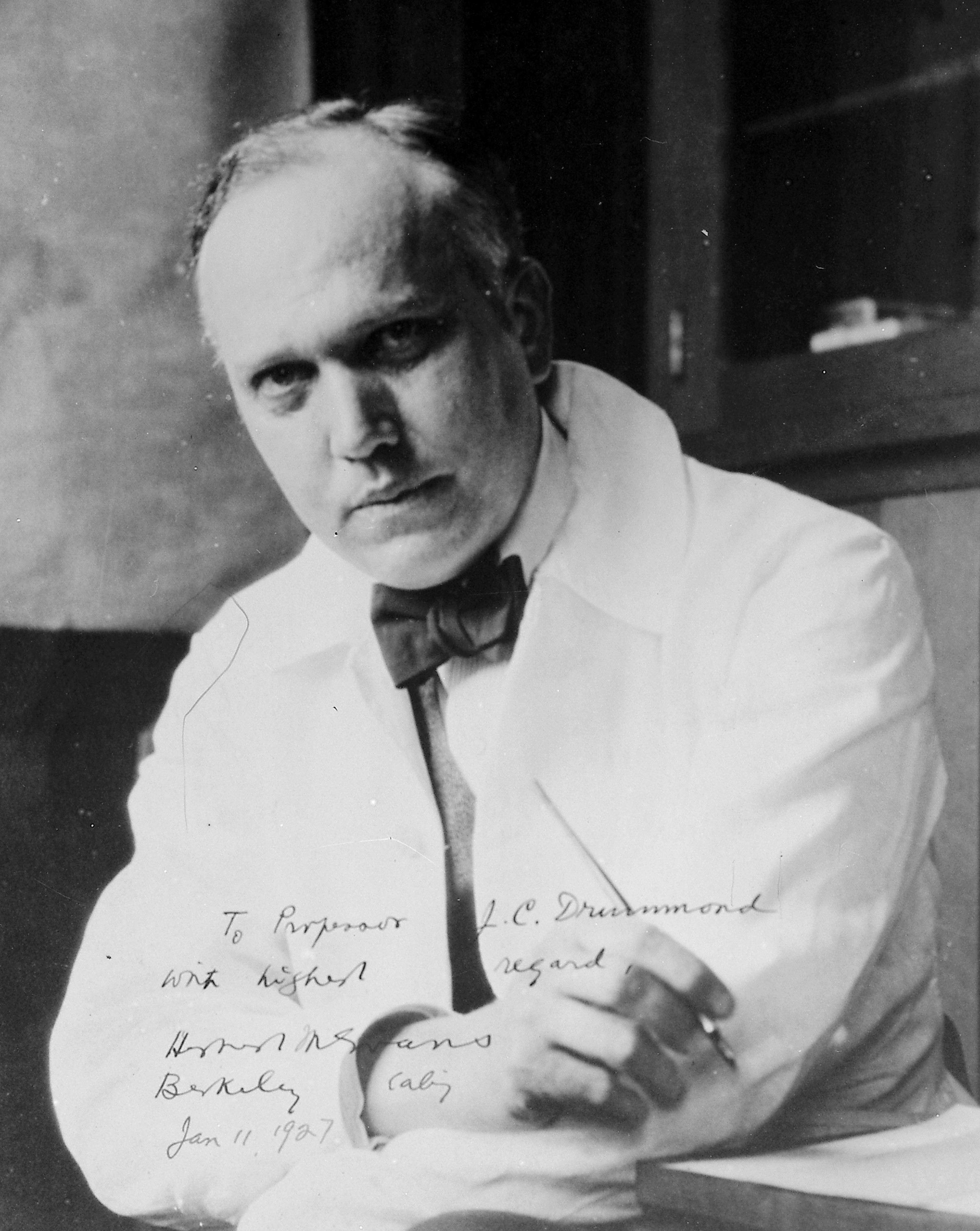 Portrait of Herbert M. Evans in laboratory, with signed inscription to J. C. Drummond, 11 January 1927